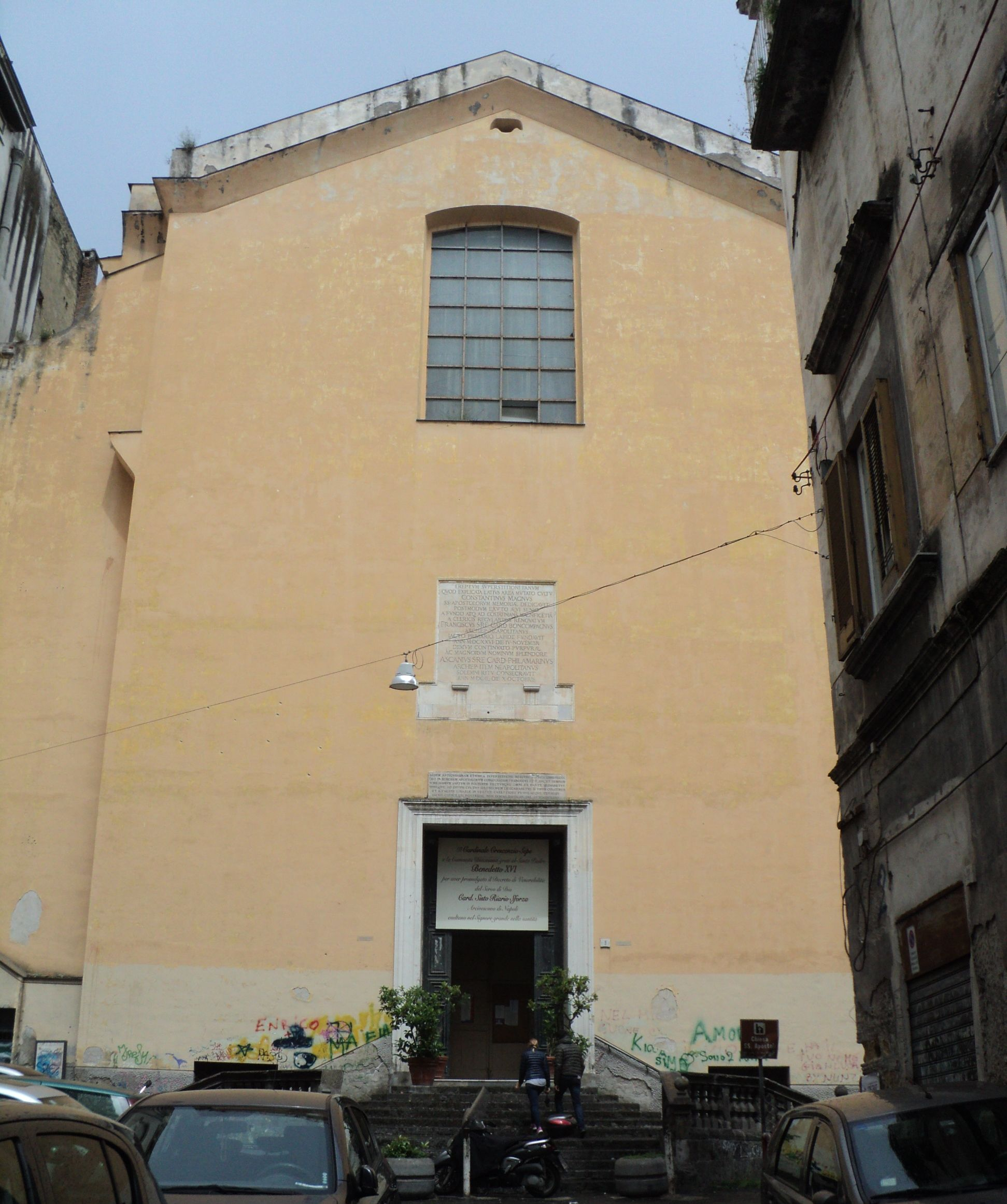 Chiesa dei Santi Apostoli (Napoli)